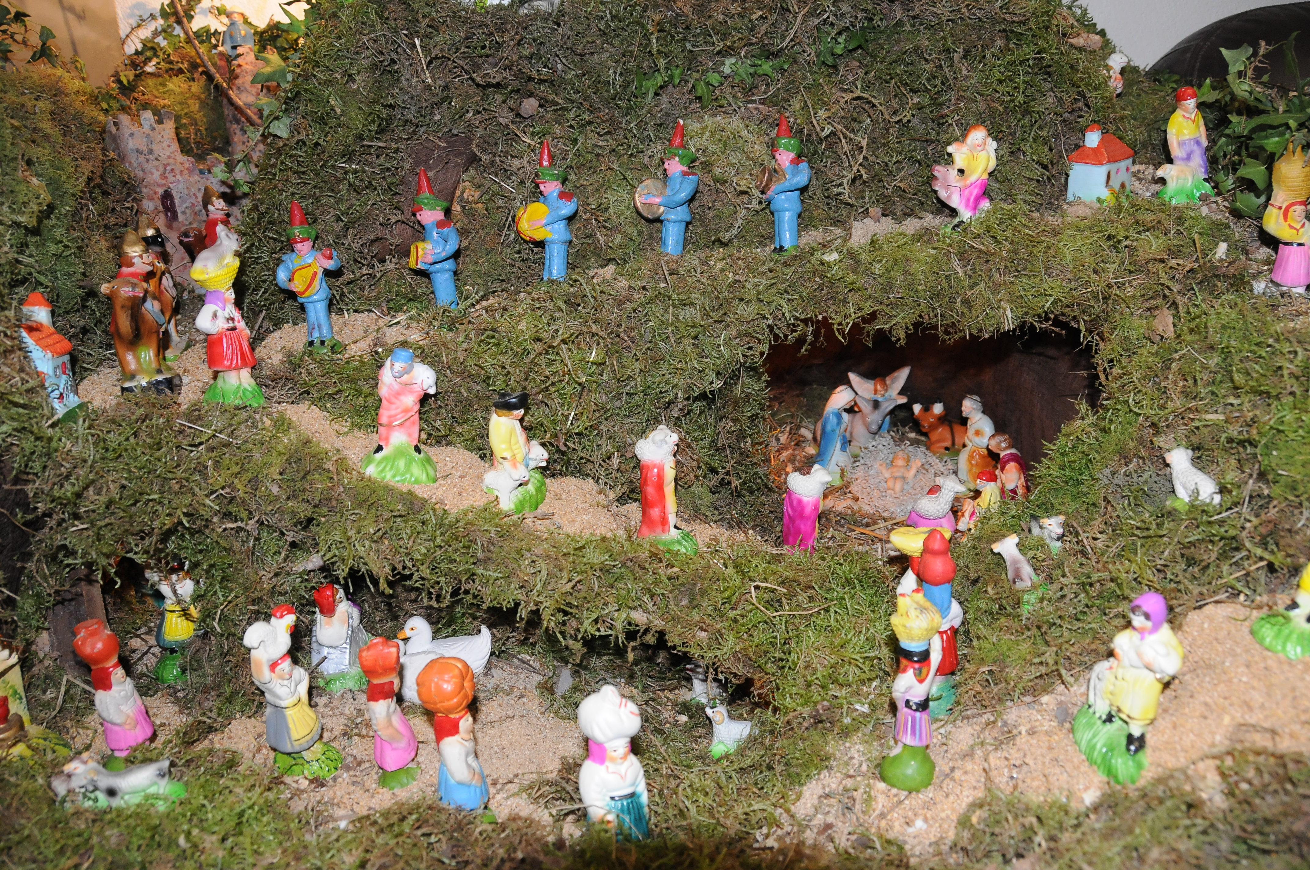 Nativity scenes of Portugal